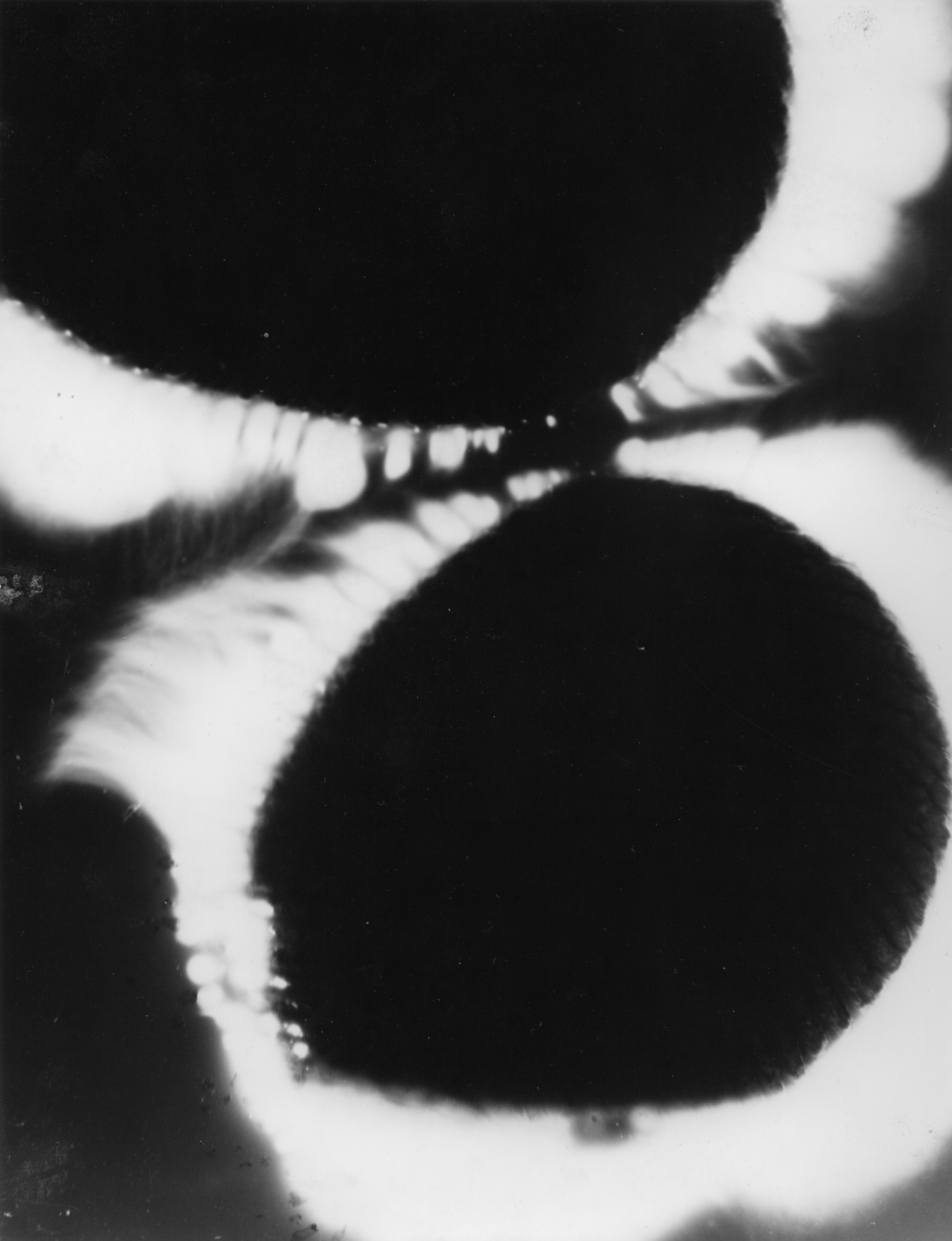 Kirlian photo of two fingertips